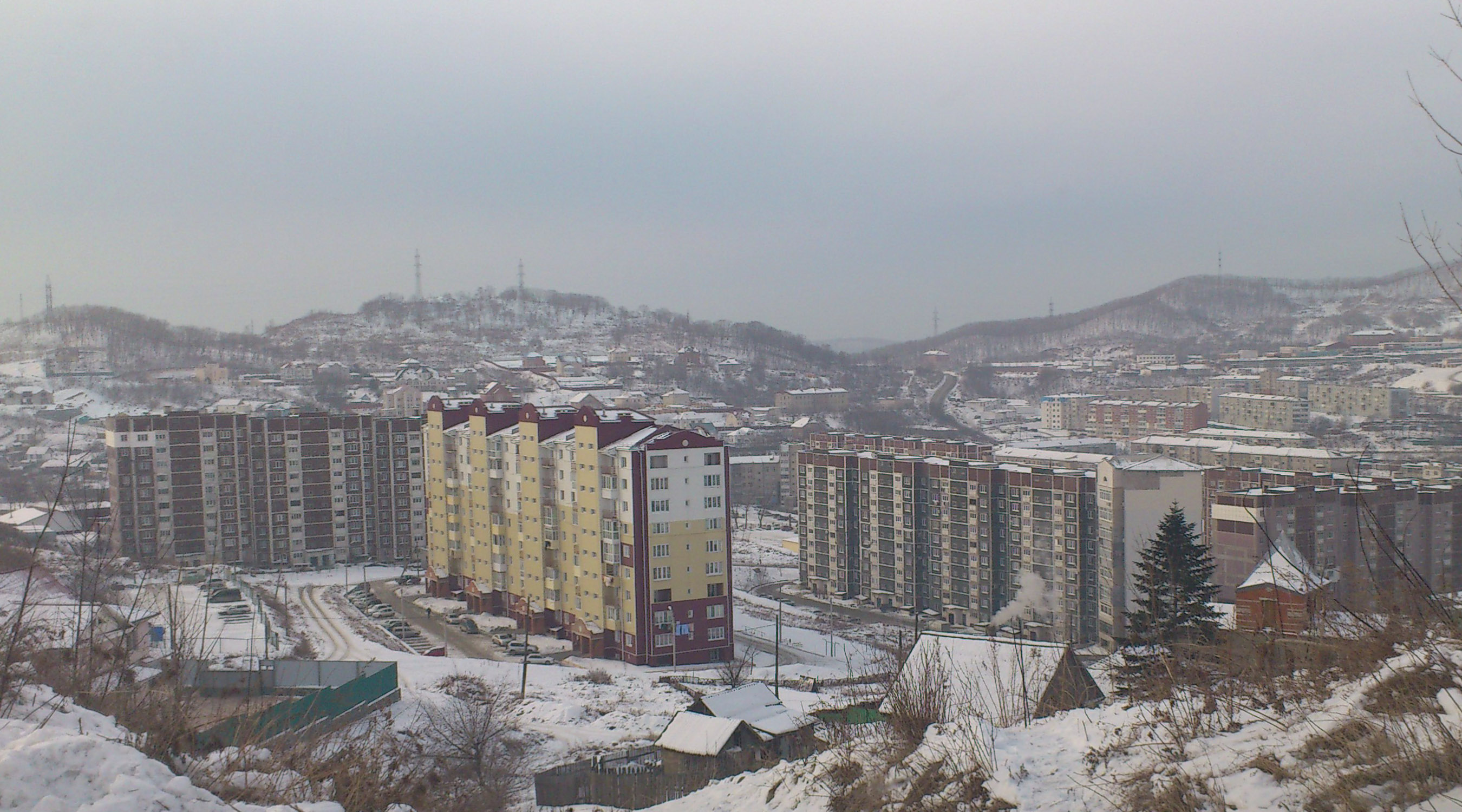 South Nahodka from a Sopka. December 17, 2012